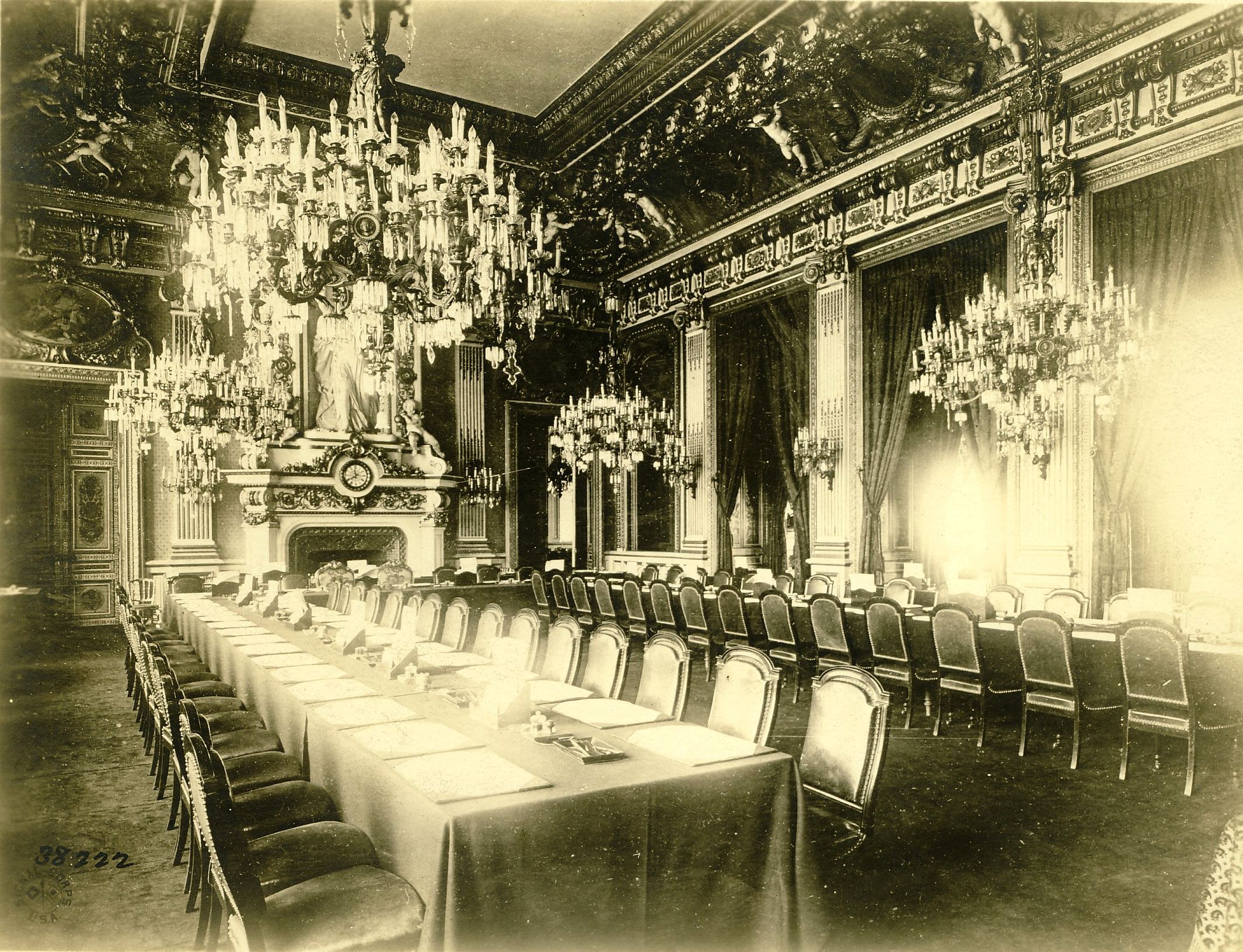 Local Accession Number: 854 Description: The site of the plenary session which adopted the first of the Covenant of the League of Nations on Feb. 14, 1919. A year later, the first meeting of the Council of the League of Nations took place in the same room. Photographer: U.S. Signal Corps Source: Unknown Size:6x9 Medium: Print, Black and White Date: 1919